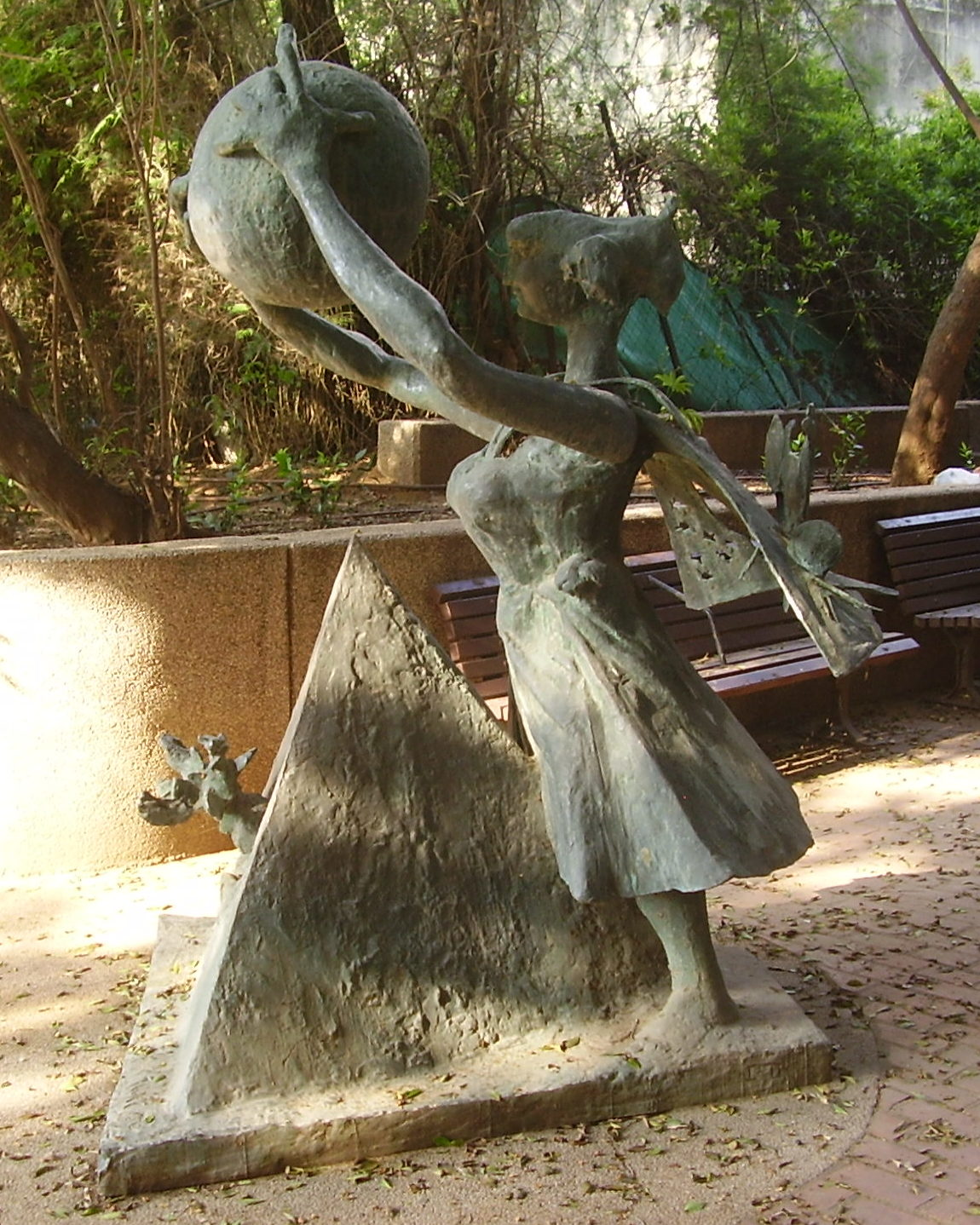 Woman with Sphere and Pyramid by Bernard Reder in Tel Aviv